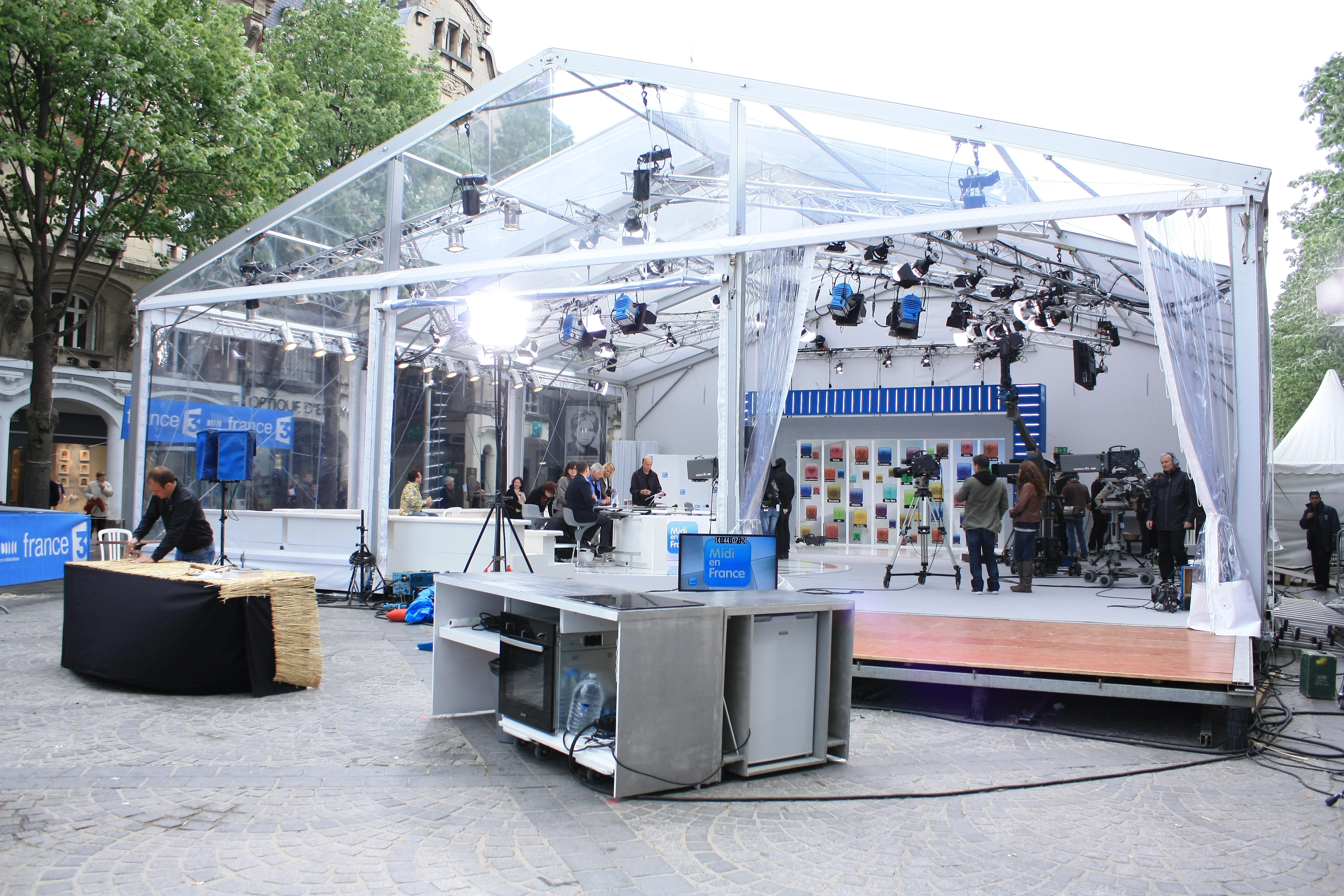 French TV Show "Midi en France" hosted by Laurent Boyer